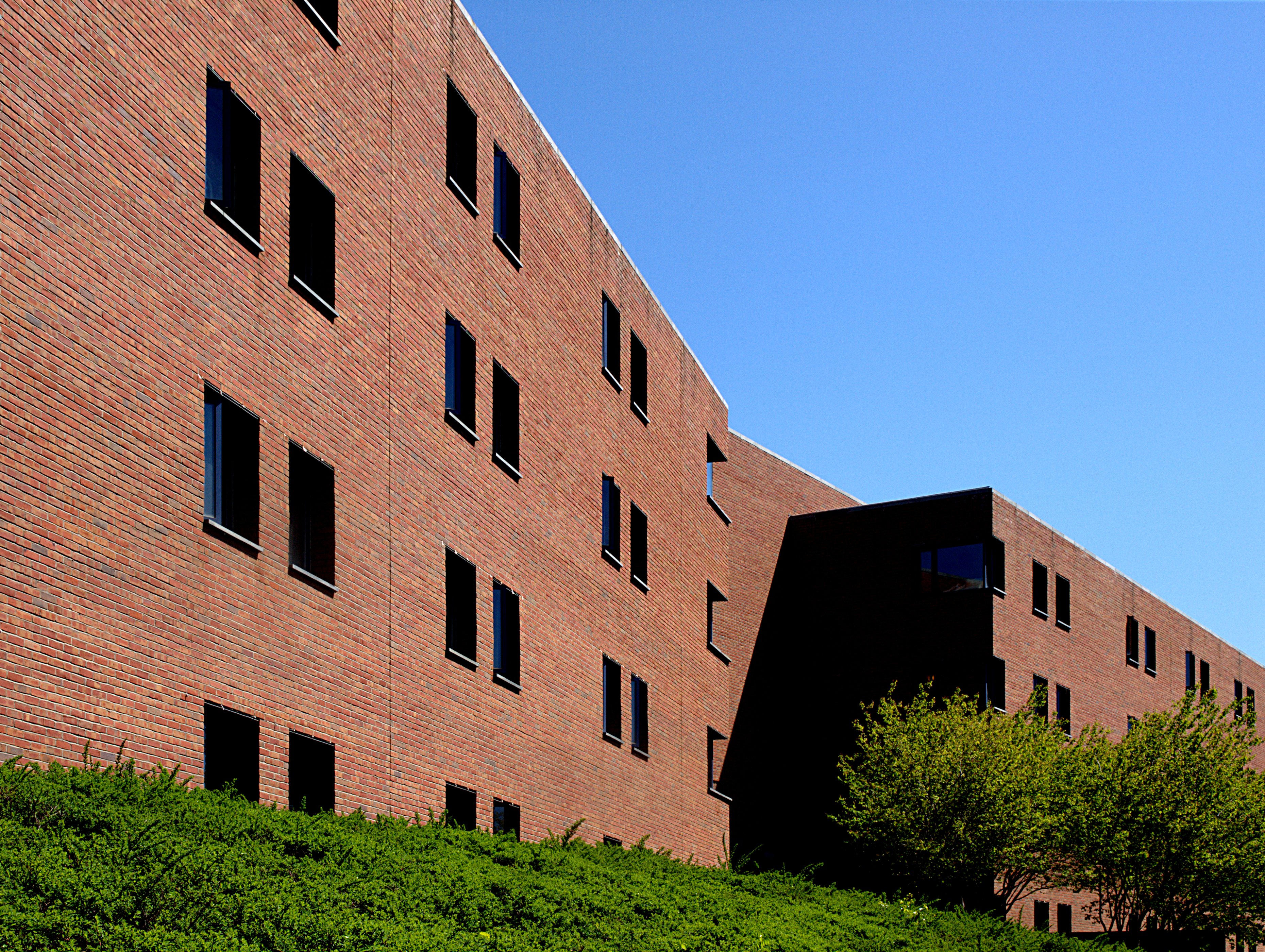 SUBJECT: Hereford College LOCATION: University of Virginia in Charlottesville, USA CAMERA: Olympus E-410